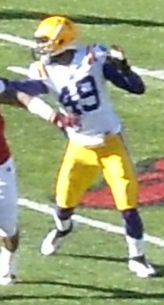 Arkansas Razorbacks vs the LSU Tigers in Donald W. Reynolds Razorback Stadium, Fayetteville, AR